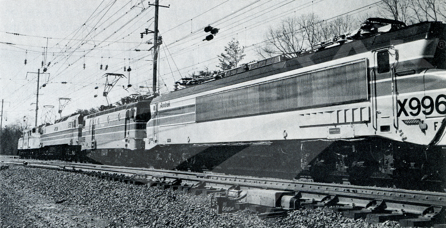 A strange train made entirely of electric locomotives on the Northeast Corridor on March 31, 1977. From left to right: an ex-PRR GG1, a new but unreliable E60, a Swedish Rc4, and a French CC21000. The Rc4 (X995) and CC21000 (X996) were being tested for a new higher-speed locomotive to replace the GG1 and E60. All but the E60 were put on display for members of the combined Institute of Electrical and Electronic Engineers, Inc. and American Society of Mechanical Engineers convention at Washington Union Station that evening. The Rc4 design was ultimately chosen; it became the basis of the long-lived EMD AEM-7 model.